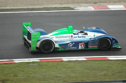 A Pescarolo C60 Hybrid at the 2005 1000km of Spa